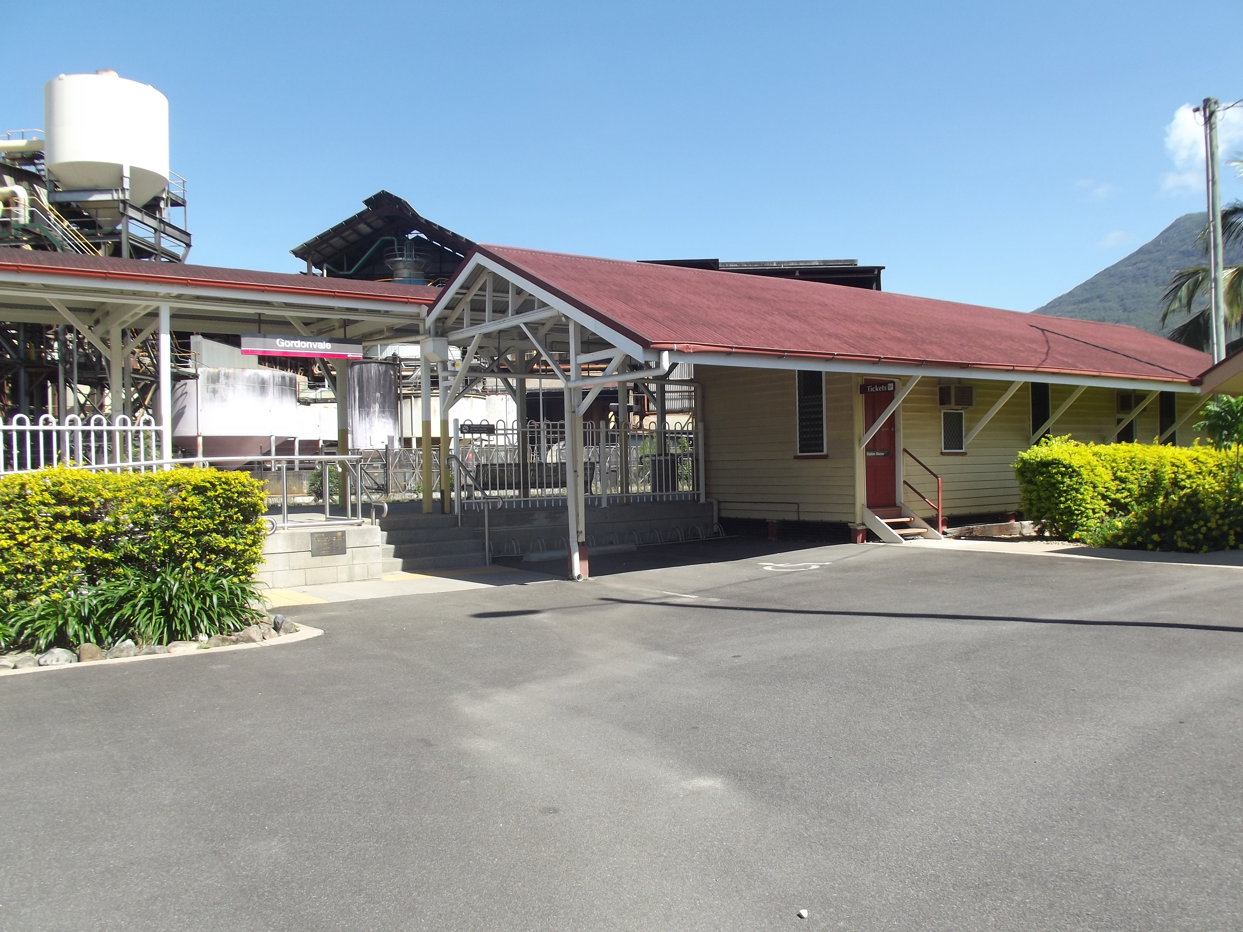 Gordonvale railway station, near the terminus of the North Coast line.